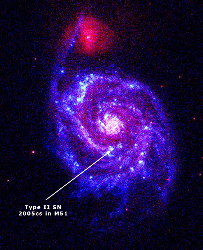 Supernova 2005cs imaged by space telescope Swift